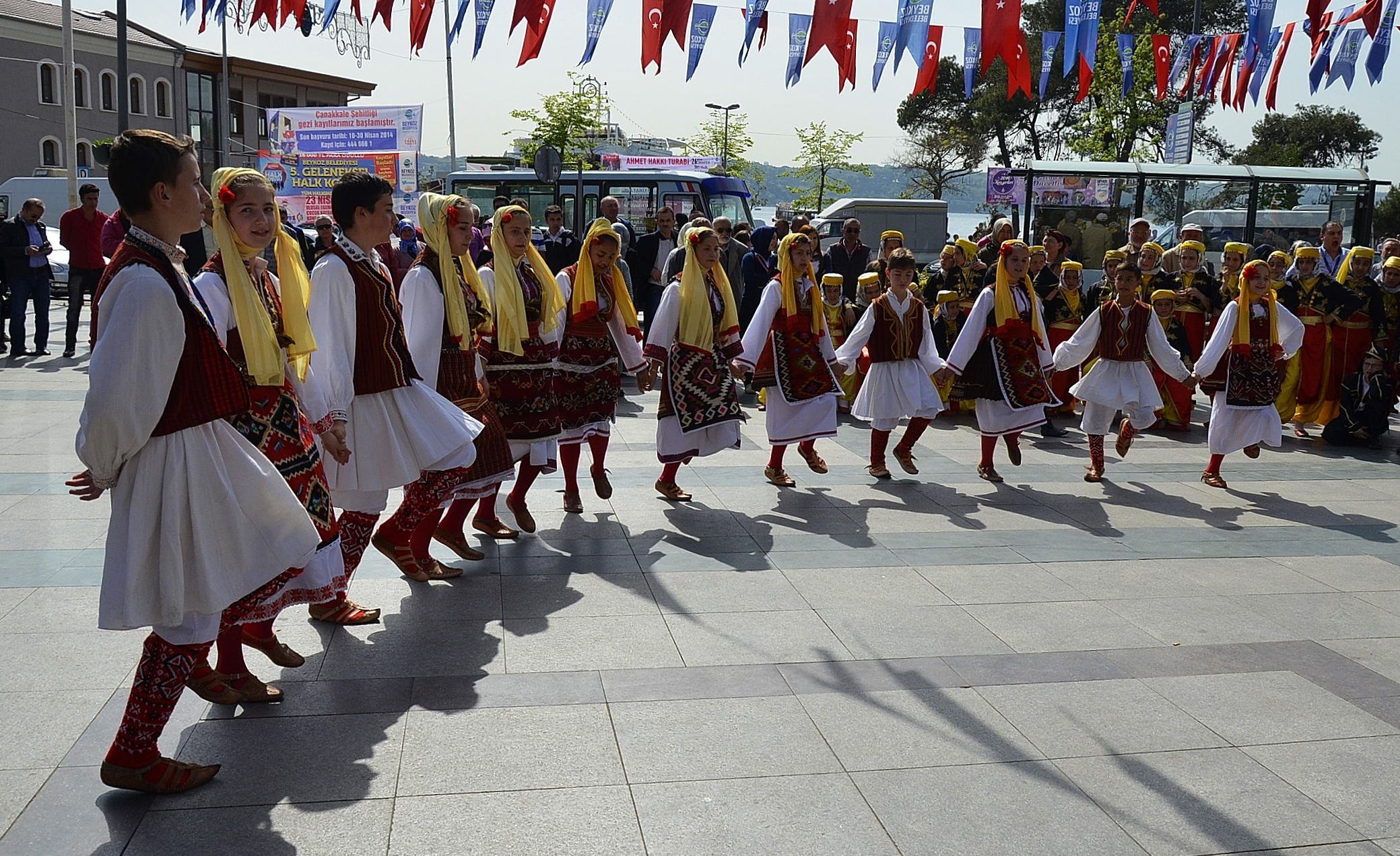 Children's Day 2014 in Beykoz, Istanbul